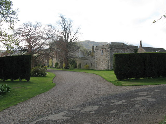 Coupland Castle is situated in the village of Coupland 6 km (4 miles) to the north-west of Wooler, Northumberland (grid reference NT936312).